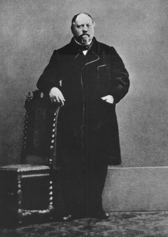 Hyacinthe Eléonore Klosé (1808-1880), French clarinettist, pedagogue & composer